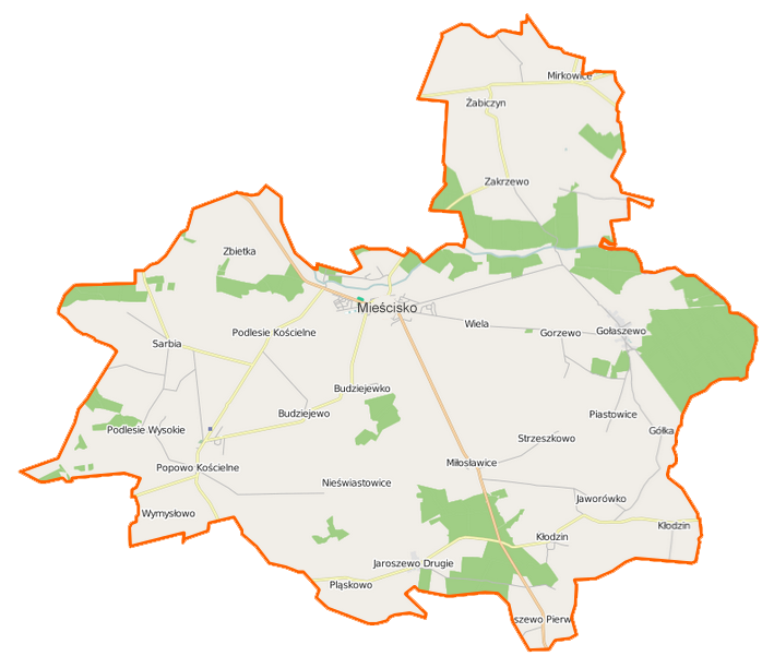 Map of Gmina Mieścisko, Poland This map of Mieścisko (gmina) was created from OpenStreetMap project data, collected by the community. This map may be incomplete, and may contain errors. Don't rely solely on it for navigation.